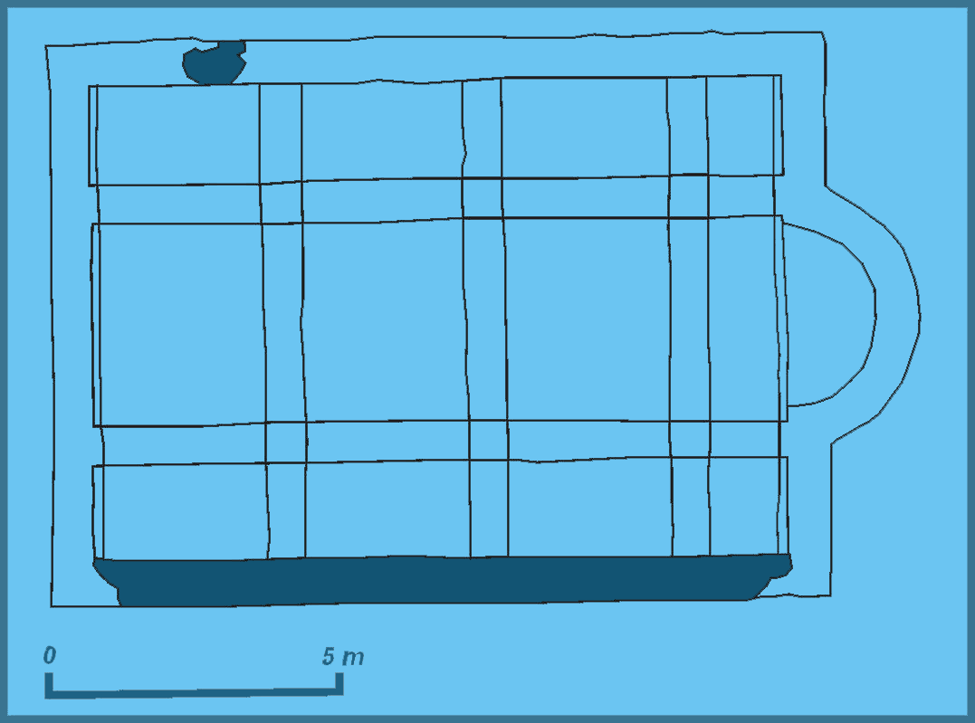 St. Teodor (Old Bar).